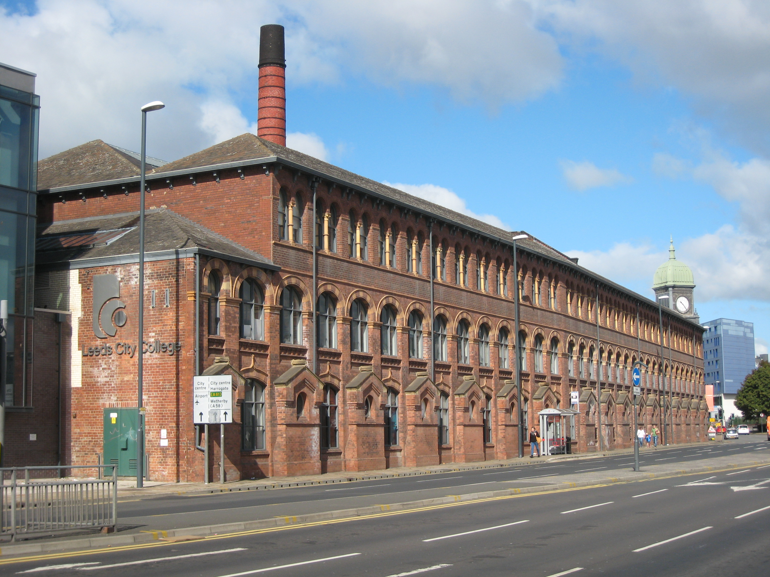 Leeds City College, Printworks building, Hunslet Lane, Leeds